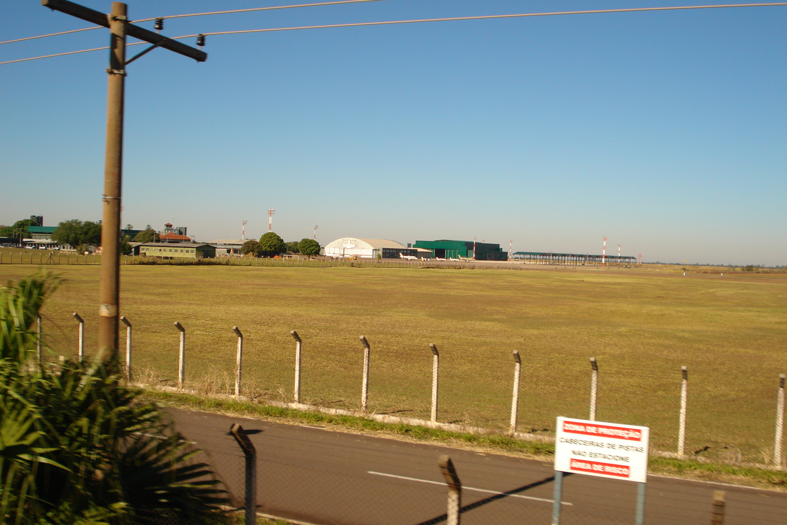 International Airport of Campo Grande